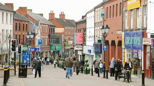 Market Square, Lisburn Market Square is a shopping street in the centre of Lisburn. It and Bow Street (background) once formed part of the Belfast – Dublin road. Both were closed to vehicular traffic (as a security precaution in the early 70’s) and are now officially pedestrianised.